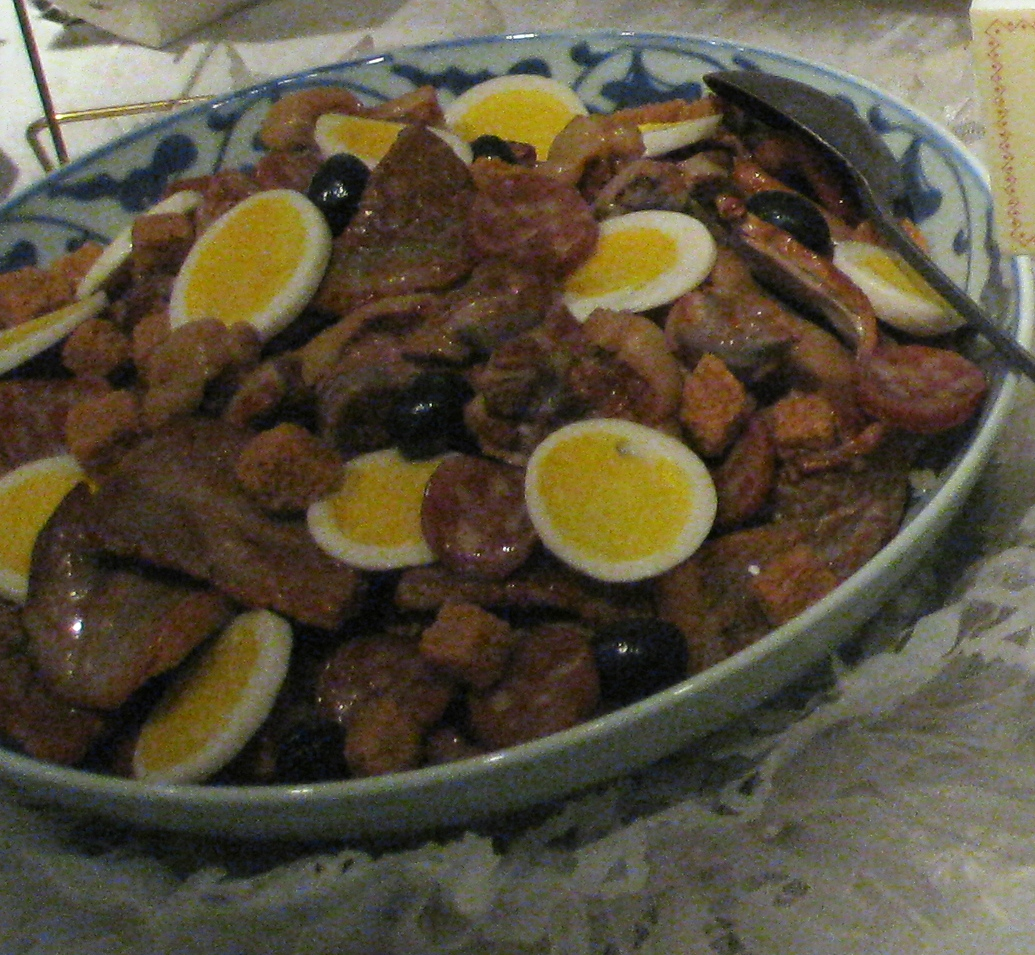 "Arroz gordo" - Cuisine of Macau - Exhibits in the Museum of Macau